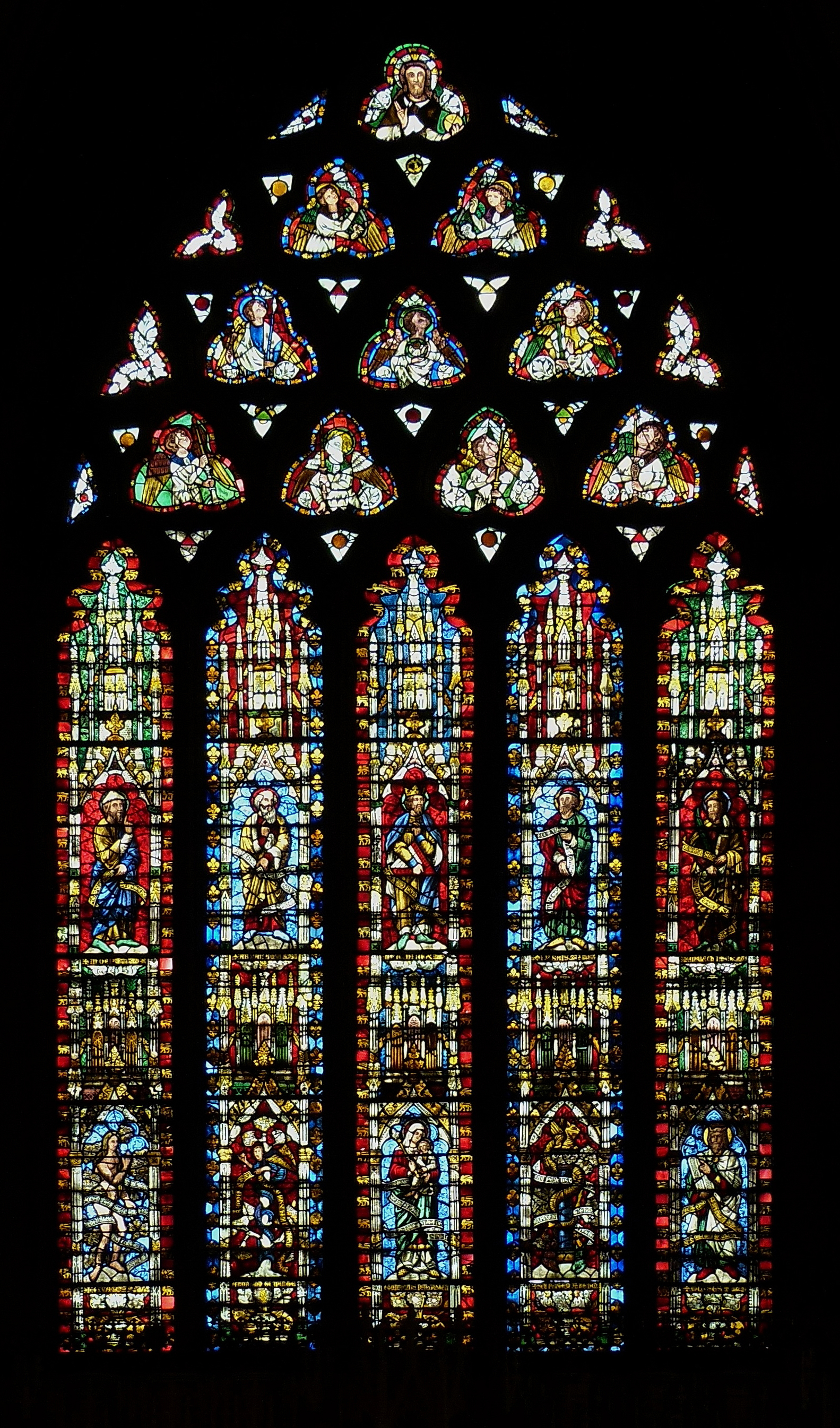 Stained glass window in the Lady Chapel, Wells Cathedral, South England